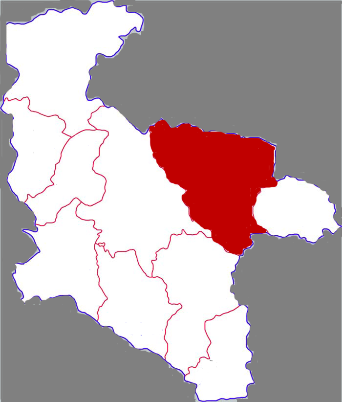 Location of Xunyang county in Ankang city, China